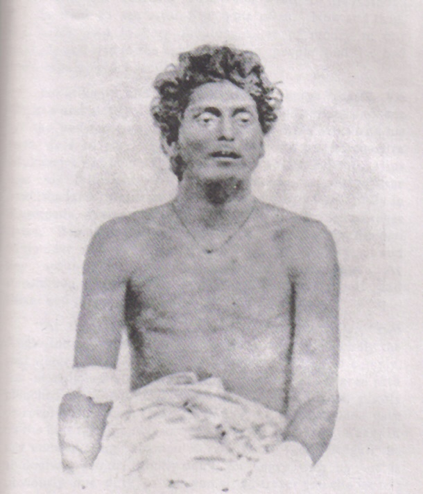 Bagha Jatin after the Battle (Balasore, 10 September 1915). From the private collection of Prithwindra Mukherjee.